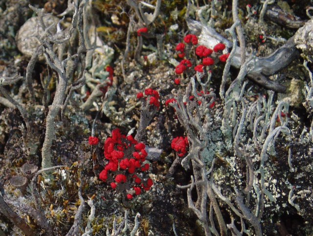 Cladonia floerkeana. This brightly-coloured lichen occurs commonly on heathlands. This one was found growing near the top of Peat Law.